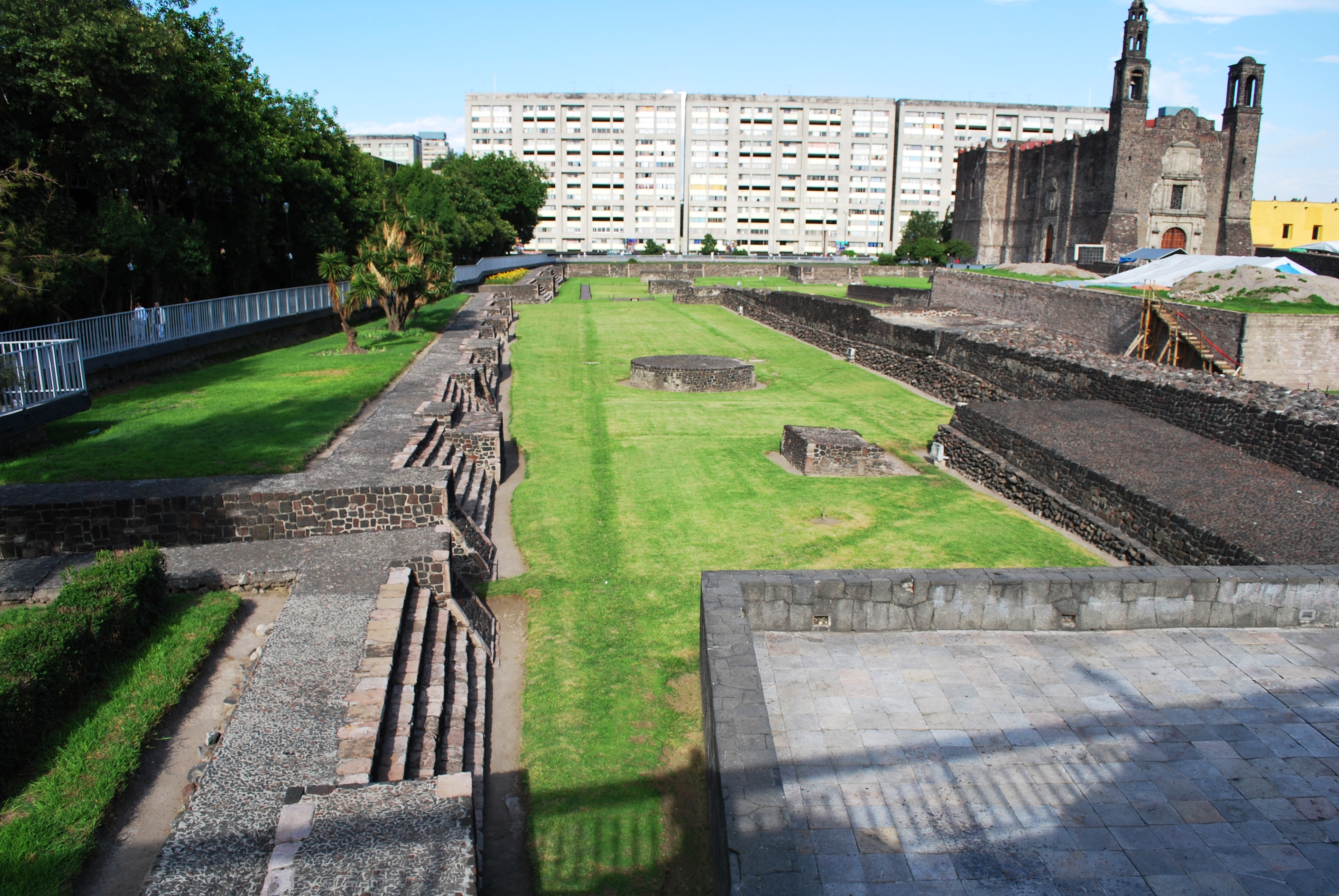 View of the north boundary of the Tlatelolco archeological zone as seen from Eje Central to the west. In Tlatelolco, Mexico City